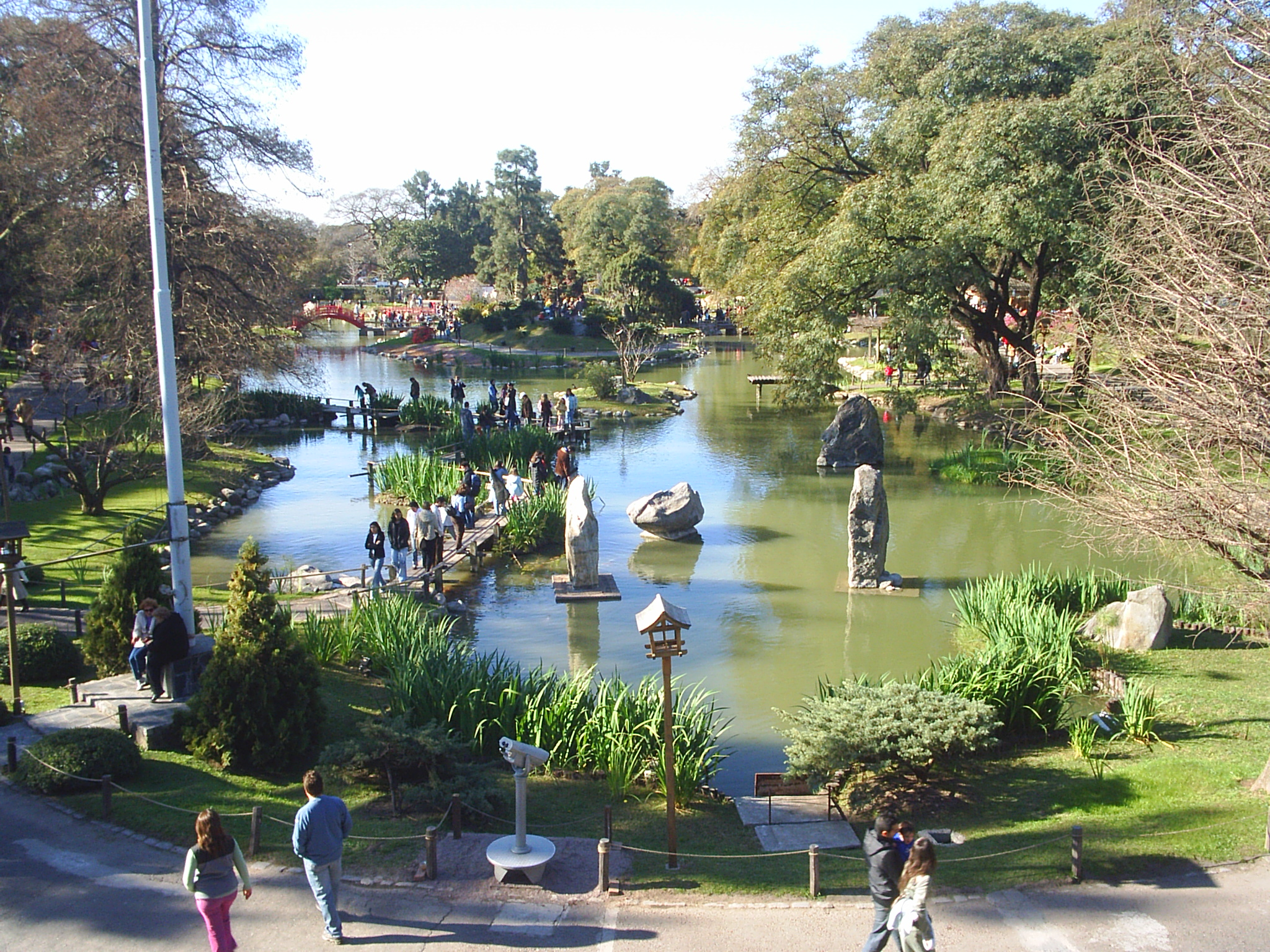 Buenos Aires Japanese Garden